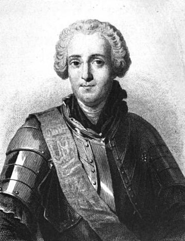 An engraving of Francis de Gaston, Chevalier de Levis.